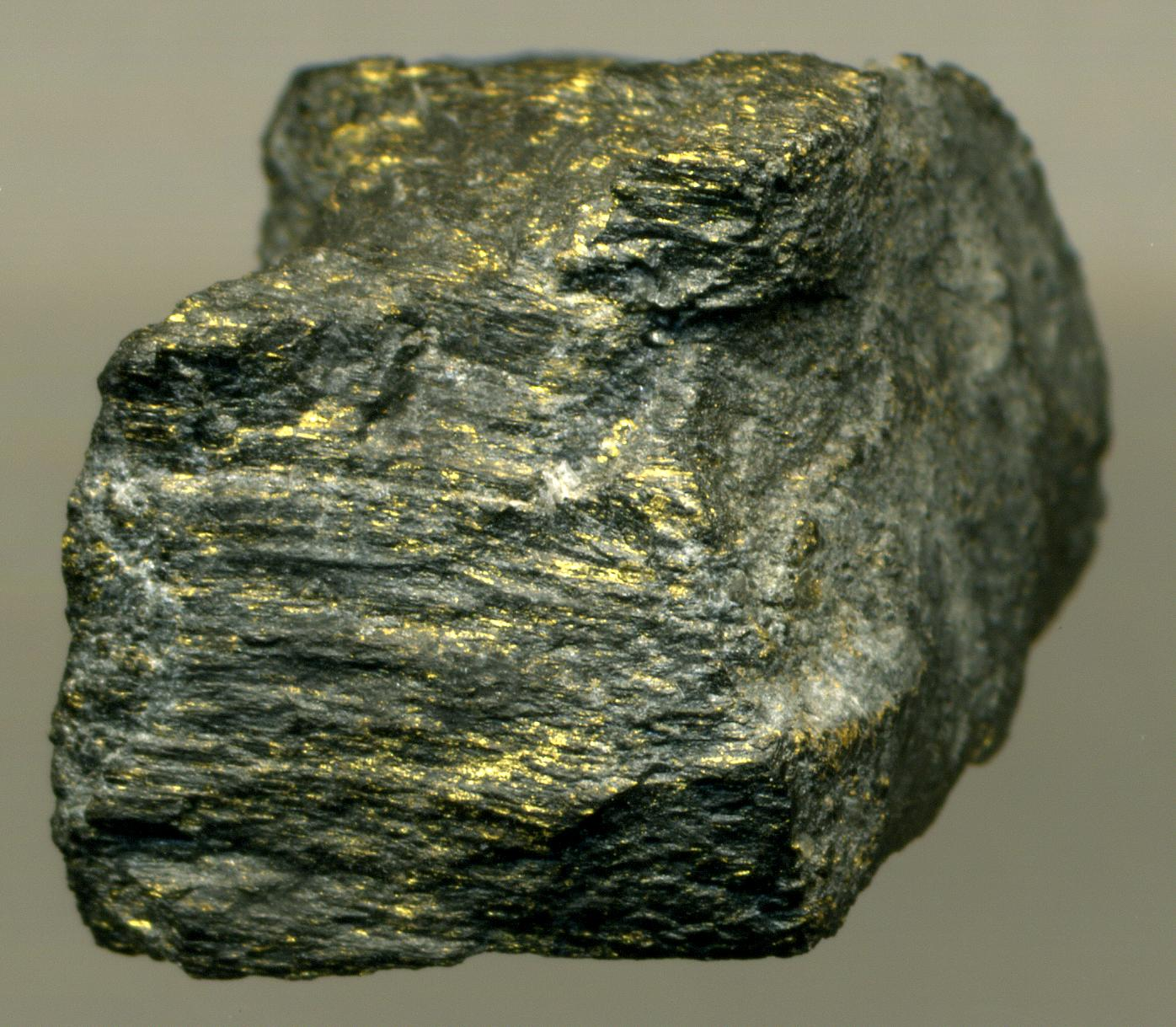 Carbon Leader Gold Ore with gold (Au) and uraninite (UO2) (black). This rock is quite radioactive. The Witwatersrand area of South Africa produces a significant percentage of the world's gold. This is a spectacular sample of Precambrian high-grade gold ore from South Africa’s Blyvooruitzicht Gold Mine. The rock is from the Carbon Leader (also known as the Carbon Leader Reef & Carbon Leader Seam), a blackened, hydrocarbon-rich stromatolitic interval richly impregnated with native gold (Au) and radioactive uraninite/pitchblende (UO2). This is a paleoplacer deposit, part of an ancient alluvial fan succession. Stratigraphy & Age: Carbon Leader Member, Main Conglomerate, lower Johannesburg Subgroup, lower Central Rand Group, Witwatersrand Supergroup, lower Neoarchean, ~2.9 billion years old. Locality: Blyvooruitzicht Gold Mine, Carletonville Goldfield, West Witwatersrand (“West Wits”), South Africa.